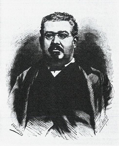 Pinho leal